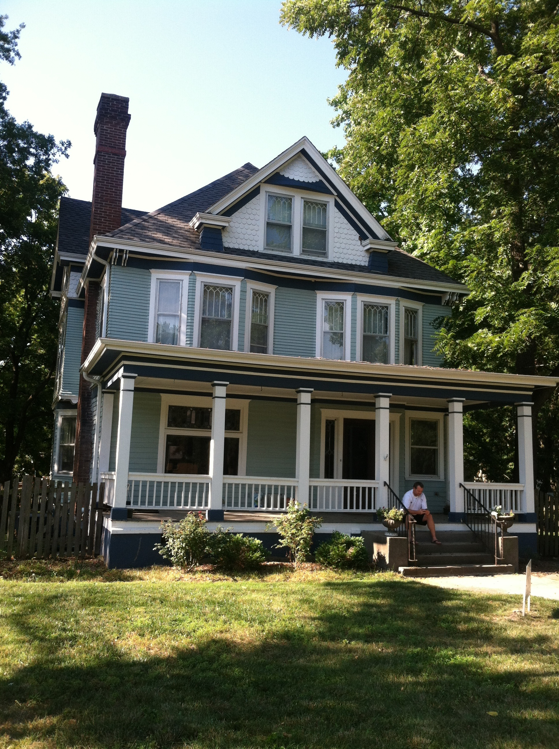 West broadway historical district home in Columbia, missouri